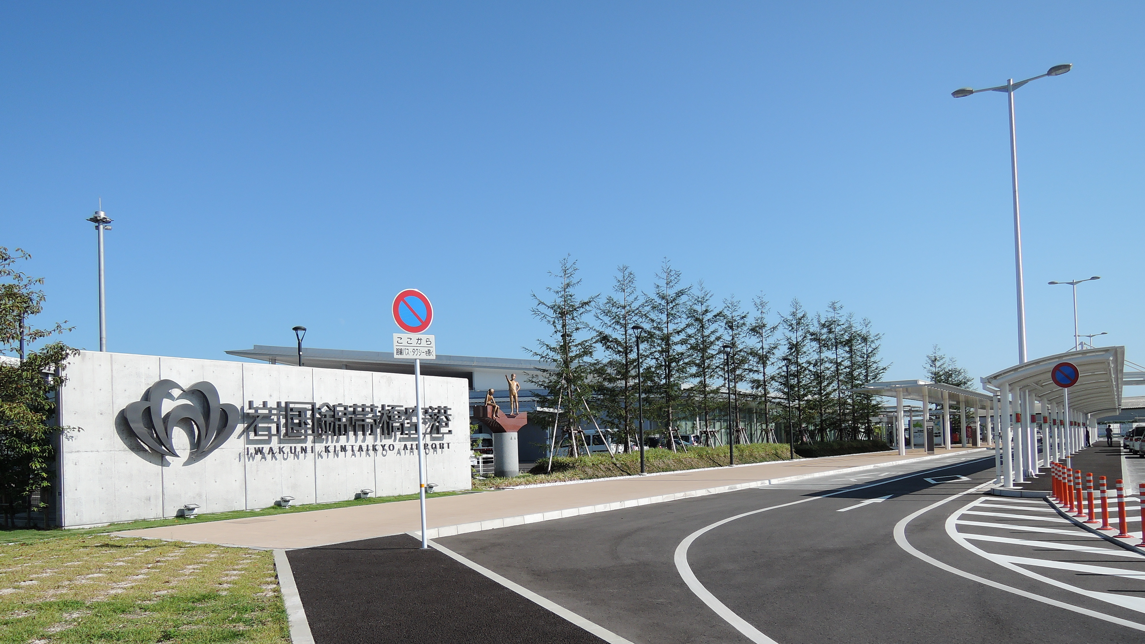 Iwakuni kintaikyo Airport,Yamaguchi prefecture, Japan